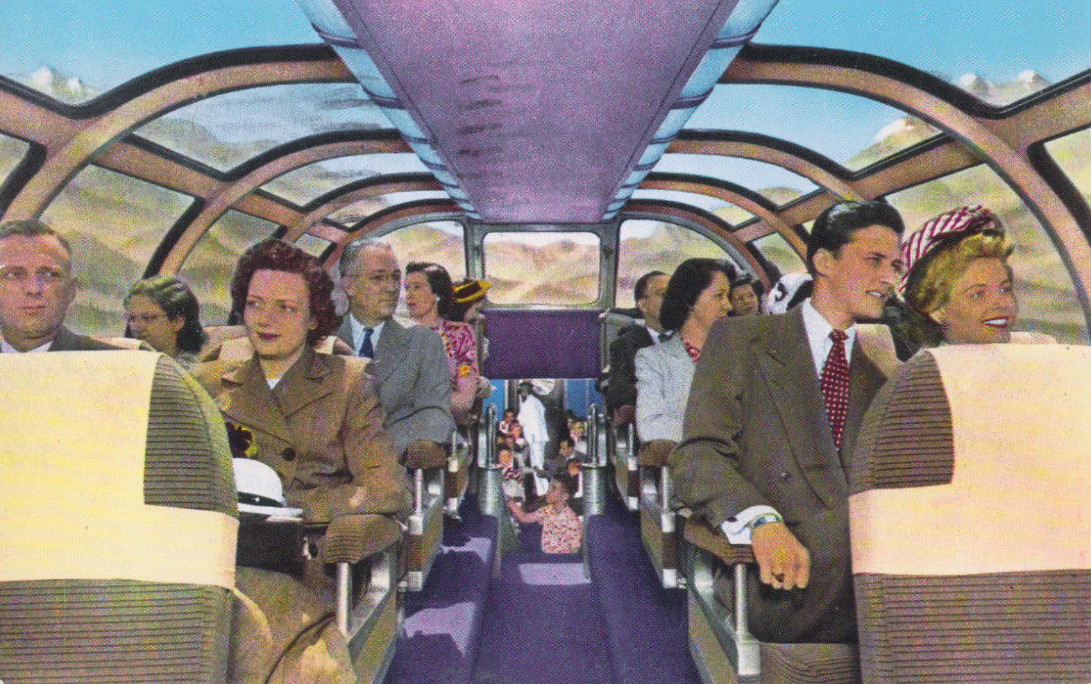 Postcard photo of Missouri Pacific Railroad's Planetarium Dome car.